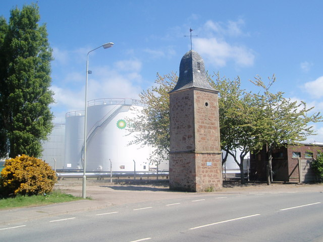 Cromwell's Citadel This tower is all that remains of the citadel built here by Oliver Cromwell, much to the annoyance of the locals. It's known locally as "the clocktower" but is actually the remains of a windmill. BP destroyed what was left of the fort under its huge oil storage tanks, as seen in the background.